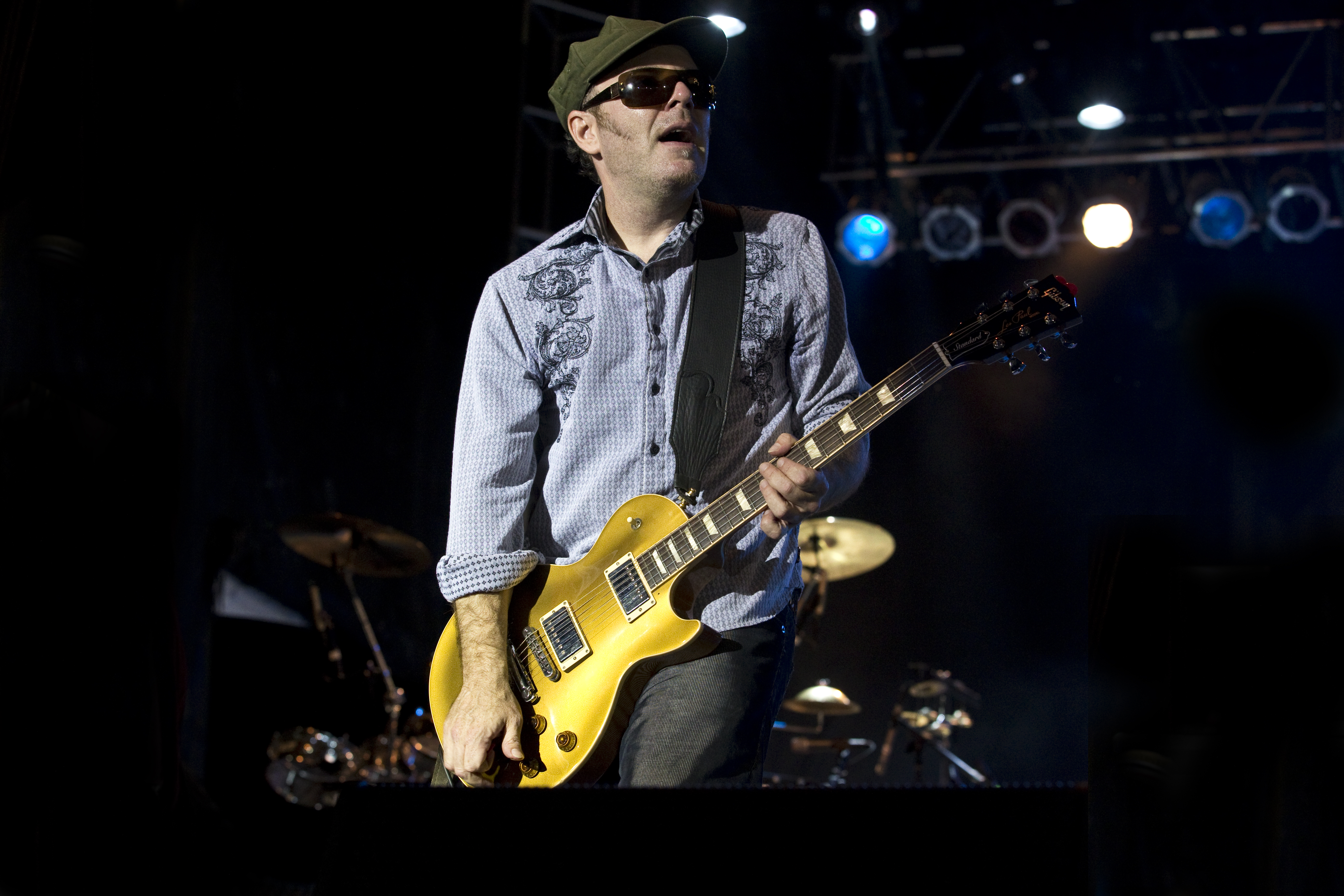 C34P0170